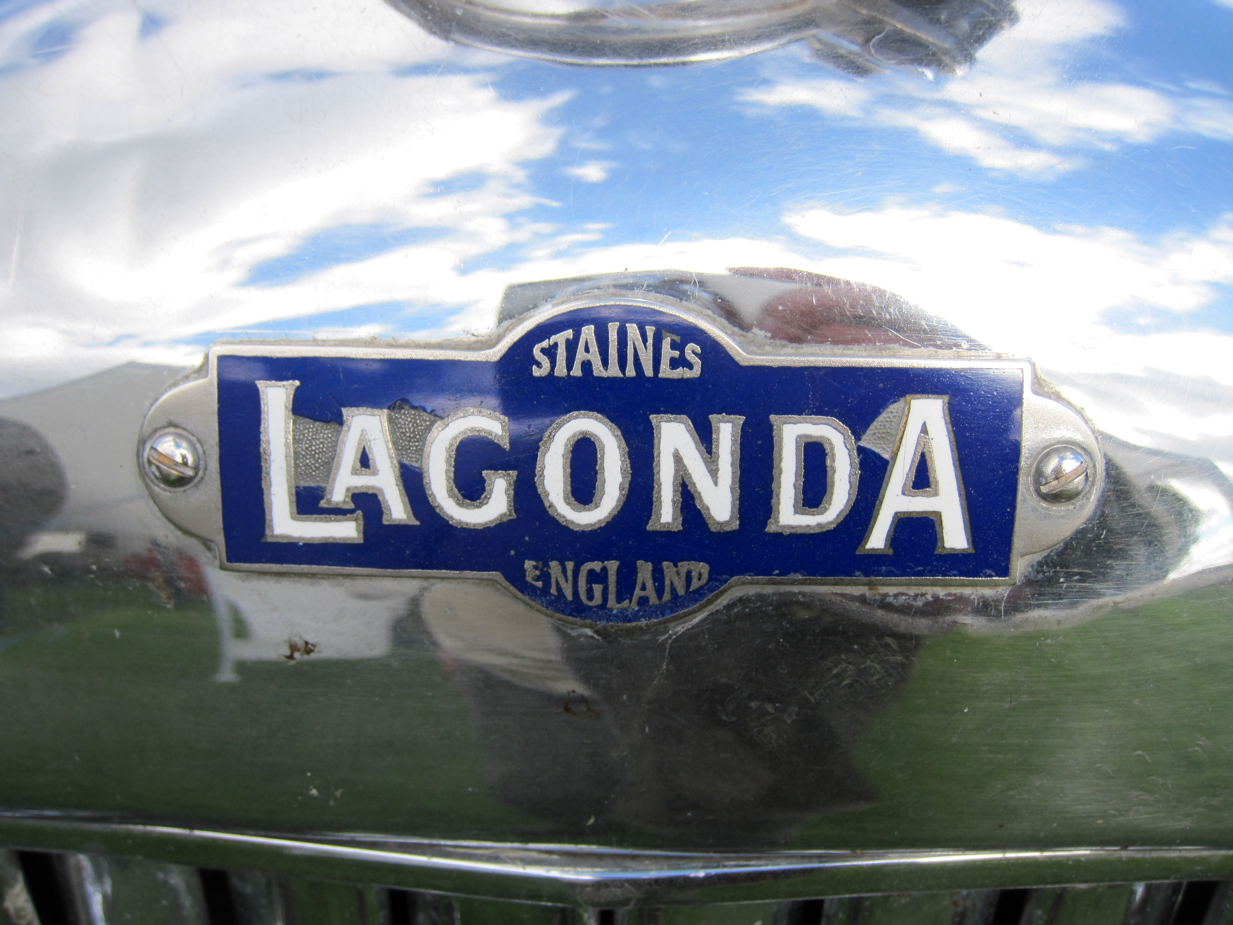 1932 Lagonda 2-litre 4-seater tourer Crofton Marlborough Wiltshire